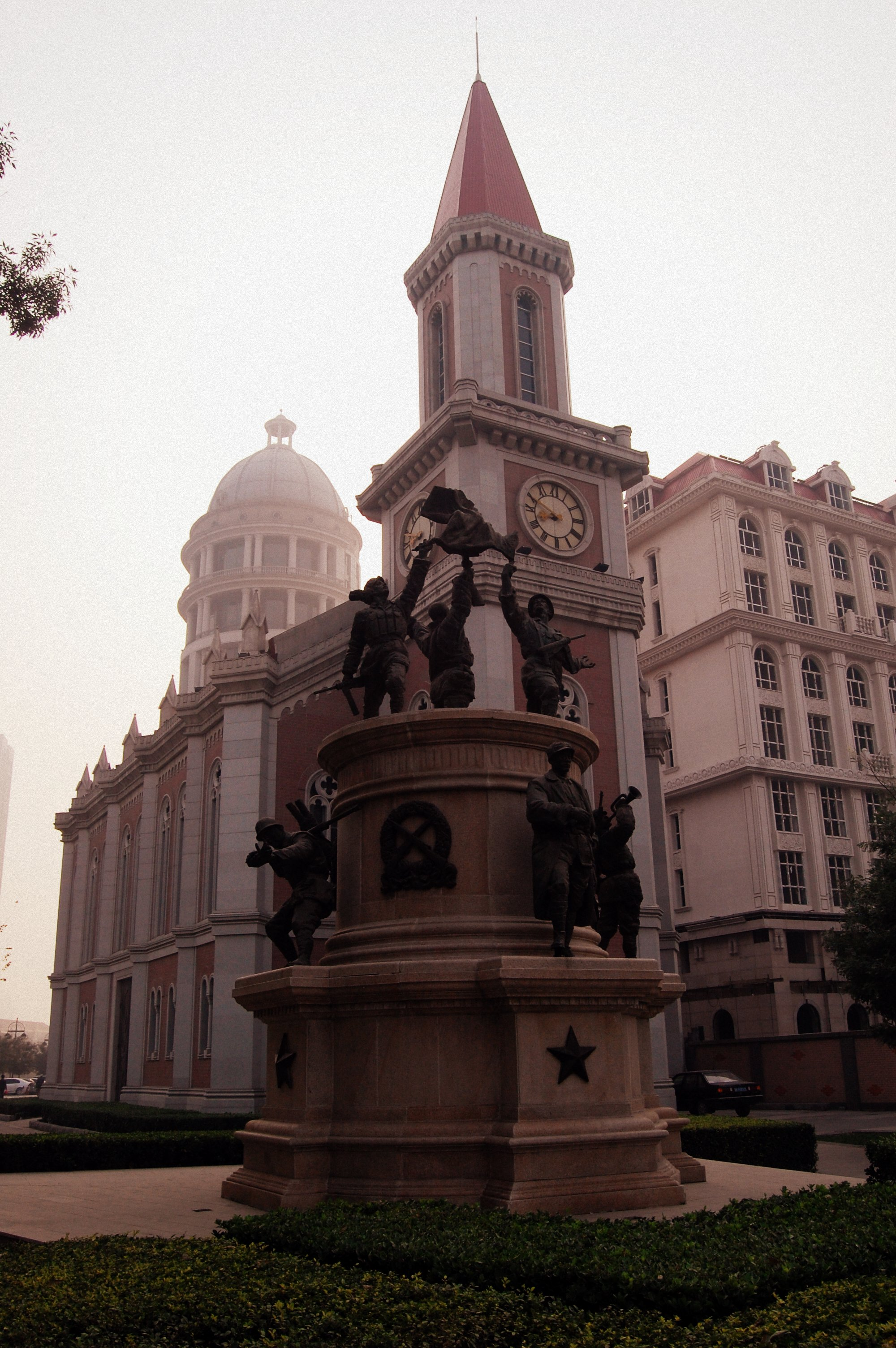 October 2010